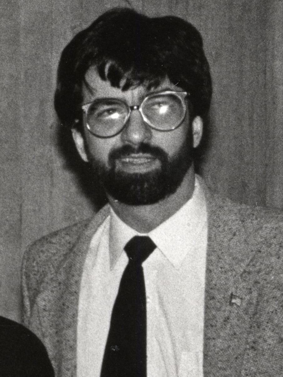 Title: State Representative Kevin Fitzgerald, Councilor Brian McLaughlin, Evelyn Randall, Mayor Raymond L. Flynn, Councilor Bruce Bolling, Councilor Maura Hennigan, Councilor David Scondras Creator: Mayor's Office - City Photographer Date: circa 1984-1987 Source: Mayor Raymond L. Flynn records, Collection #0246.001 File name: RF_0345 Rights: Copyright City of Boston Citation: Mayor Raymond L. Flynn records, Collection #0246.001, City of Boston Archives, Boston